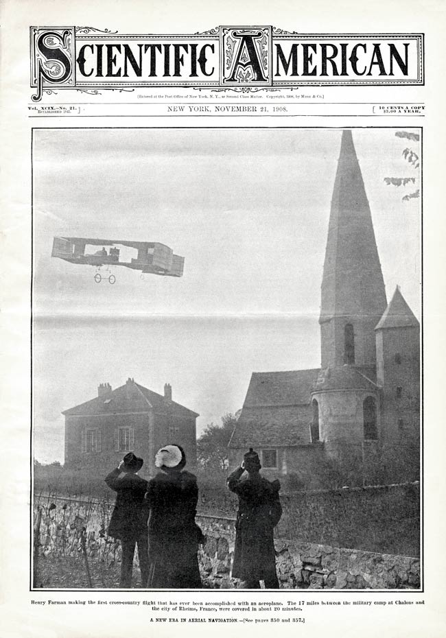 Henry Farman cross-country flight with aeroplane on Scientific American's front cover 21 November 1908. The cover includes the text: Vol. XCIX - No. 21., NEW YORK, NOVEMBER 21, 1908. Henry Farman making the first cross-country flight that has ever been accomplished with an aeroplane. The 17 miles between the military camp at Chalons and the city of Rheims, France, were covered in about 20 minutes. A NEW ERA IN AERIAL NAVIGATION - [see pages 350 and 357.]